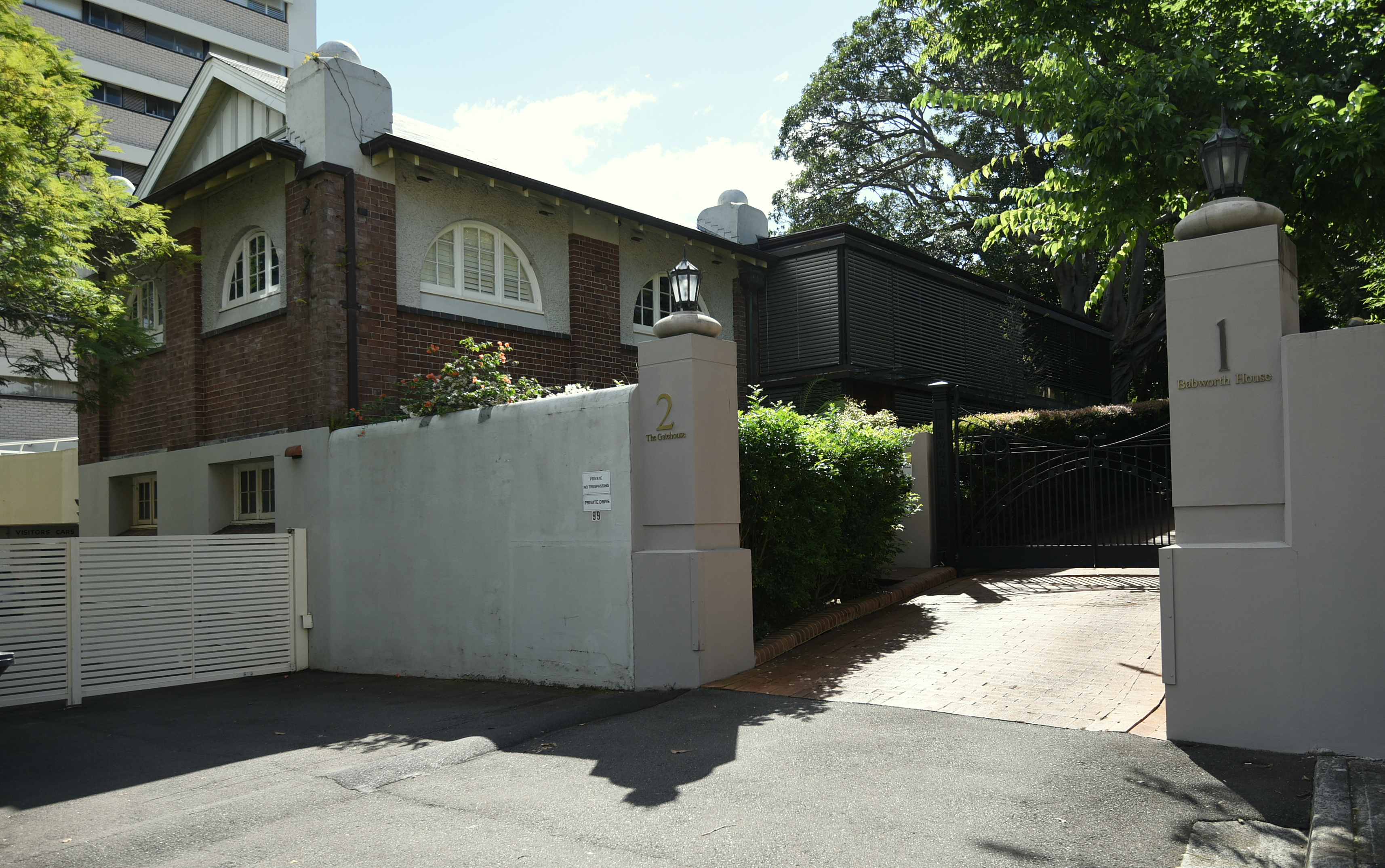 Gate and gatehouse, Babworth House, Darling Point, Sydney